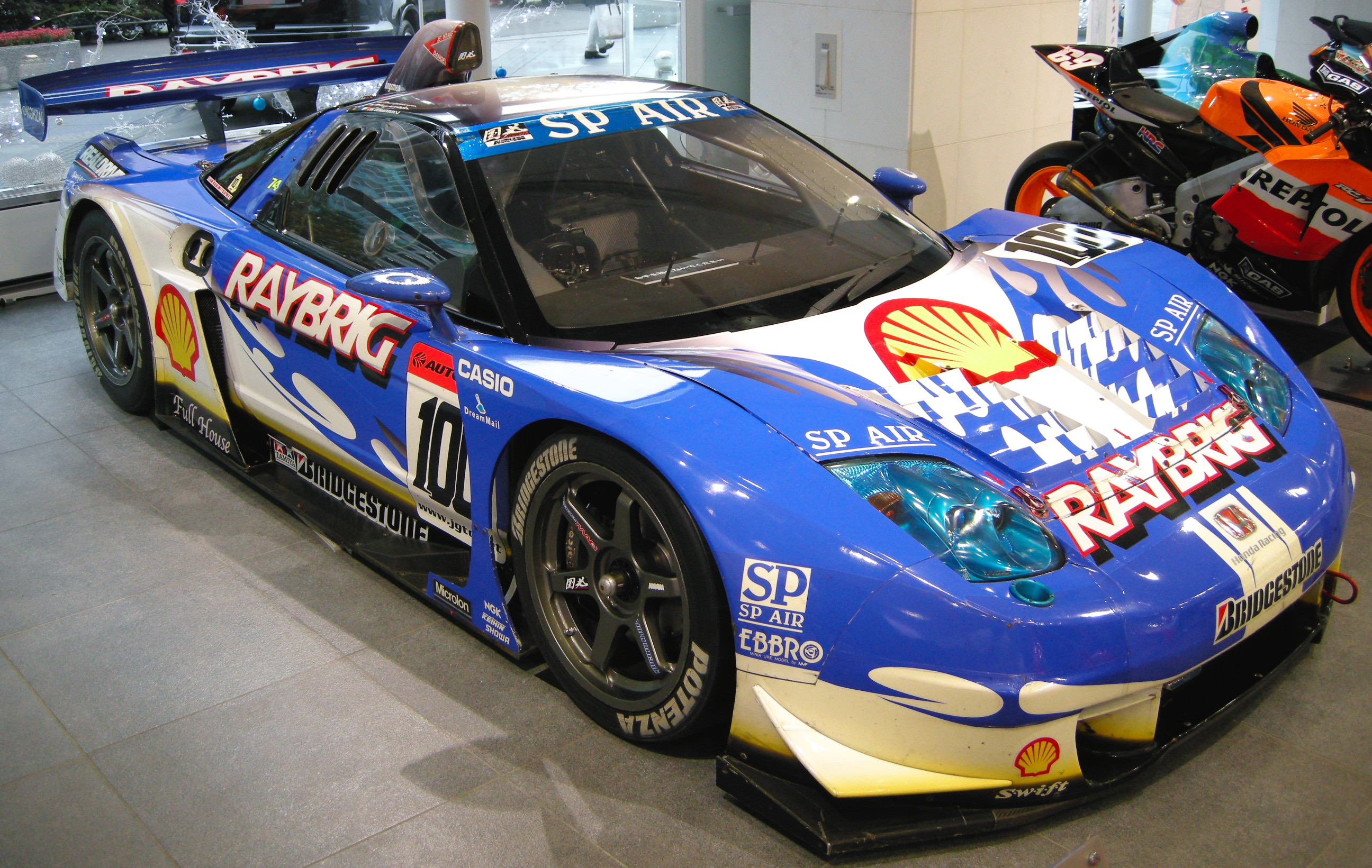 2004 JGTC RAYBRIG NSX photographed in in Honda Welcome Plaza Aoyama (Minato, Tokyo)